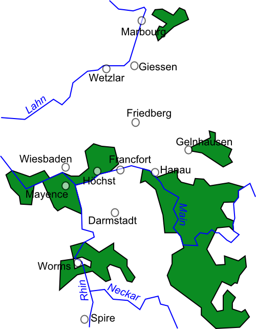 Map of the Electorate of Mainz and the Prince-Bishopric of Worms around 1648.